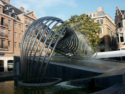 own picture